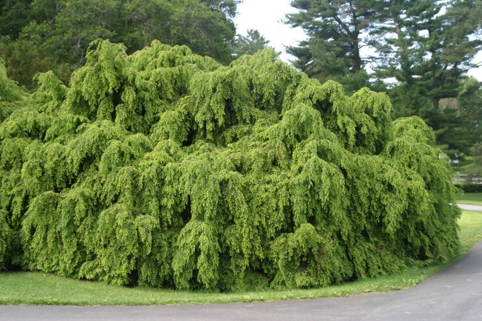 Tsuga canadensis at Longwood Gardens